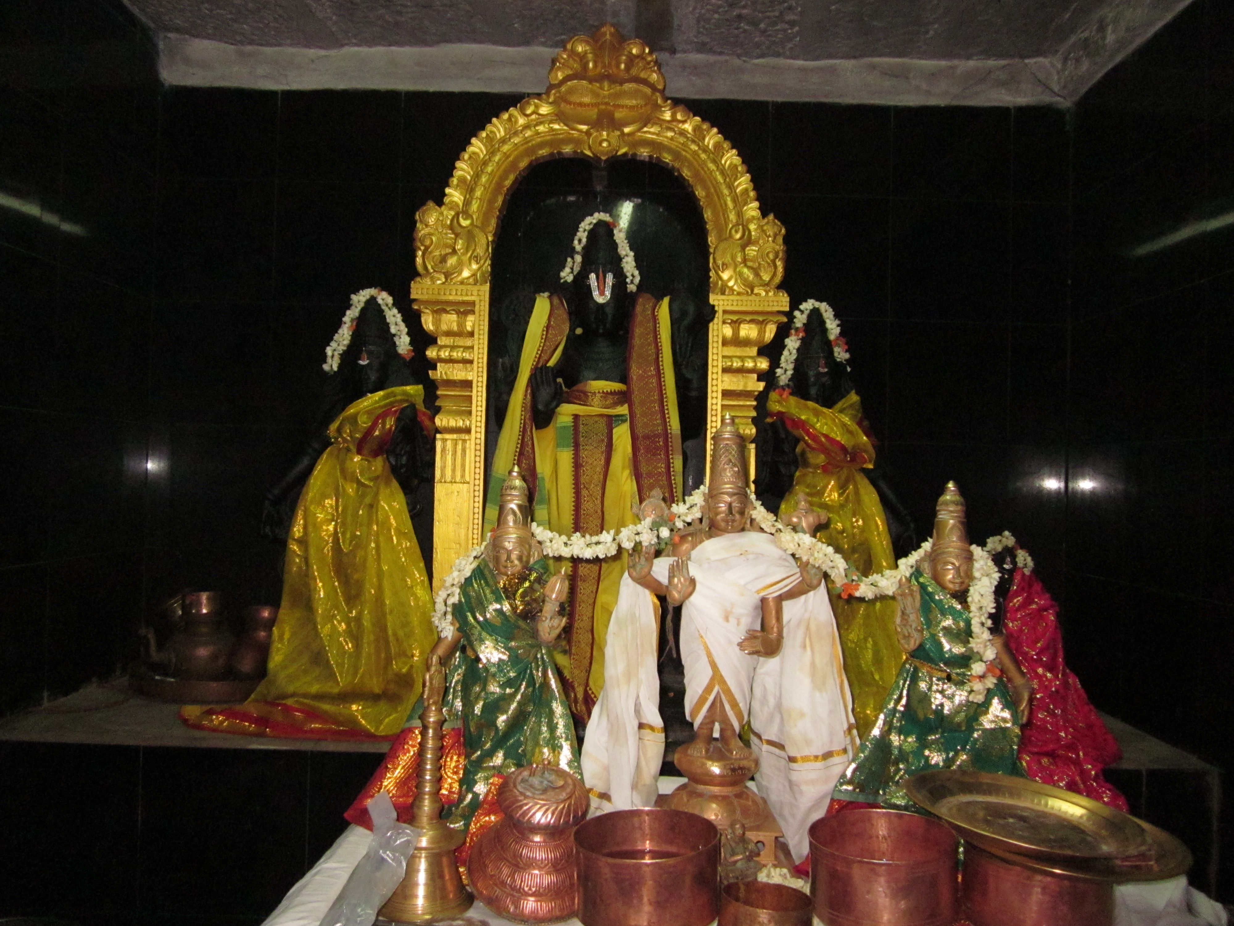 Vaikuntanathar Swamy at Therani